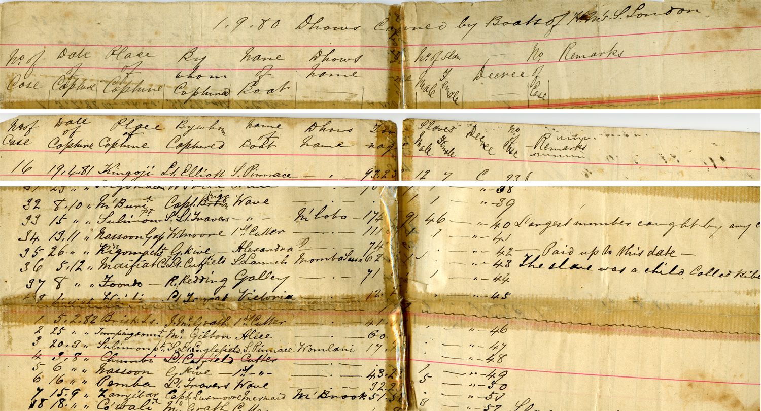 "Dhows captured by boats of HMS London" while stationed in Zanzibar 1880-1882. (This was a document written by my ancestor while serving on board the London. This image contains only partial records and is not complete. Shown here: Header from first page, Header from second page, partial records from second page.) The original document is 2 pages and contains 74 records (case #'s).